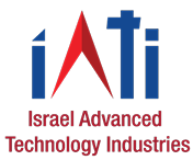 Logo of The Israel Advanced Thecnology Industries